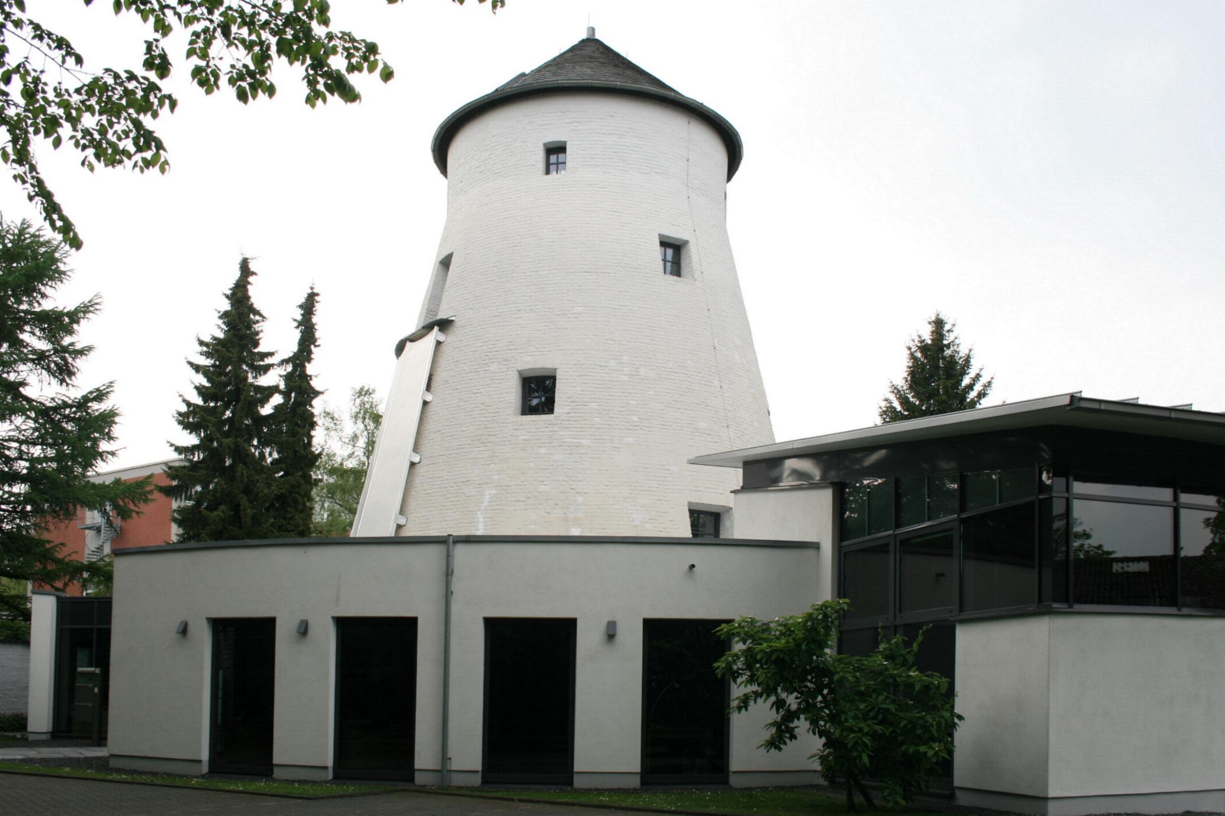 Cultural heritage monument No. B 062 in Mönchengladbach